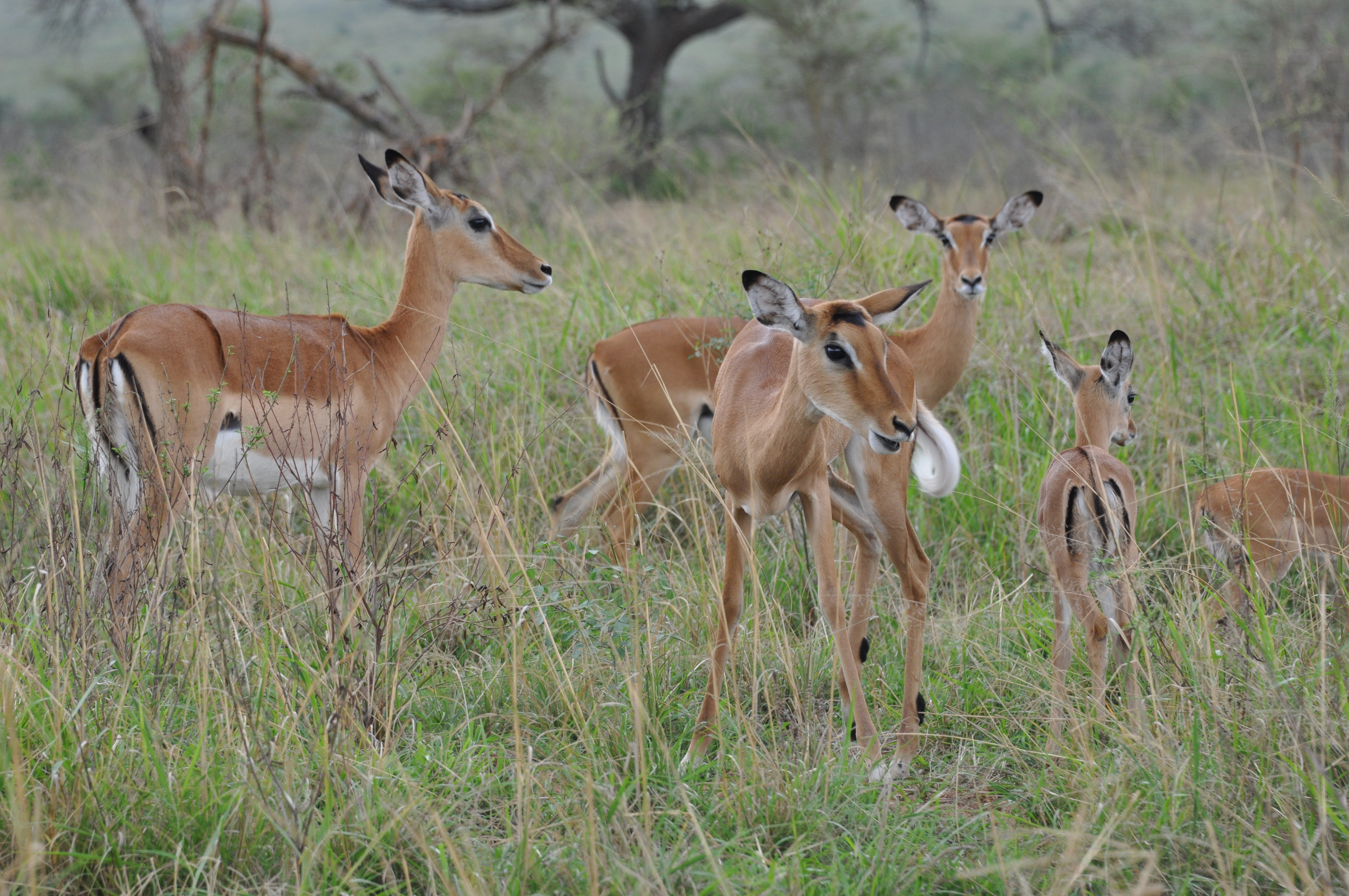 2012, Akagera National Park.